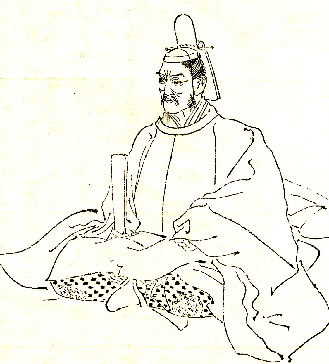 Fujiwara no Kanezane (藤原 兼実), also known as Kujō Kanezane (九条 兼実), is the founder of the Kujō family.This picture was drawn by Kikuchi Yosai（菊池容斎） who was a painter in Japan.